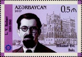 Union of Architects of Azerbaijan. N 1303 - 50 qapik. - There are pictured Lev Rudnev and House of the Government in Baku on the stamps.